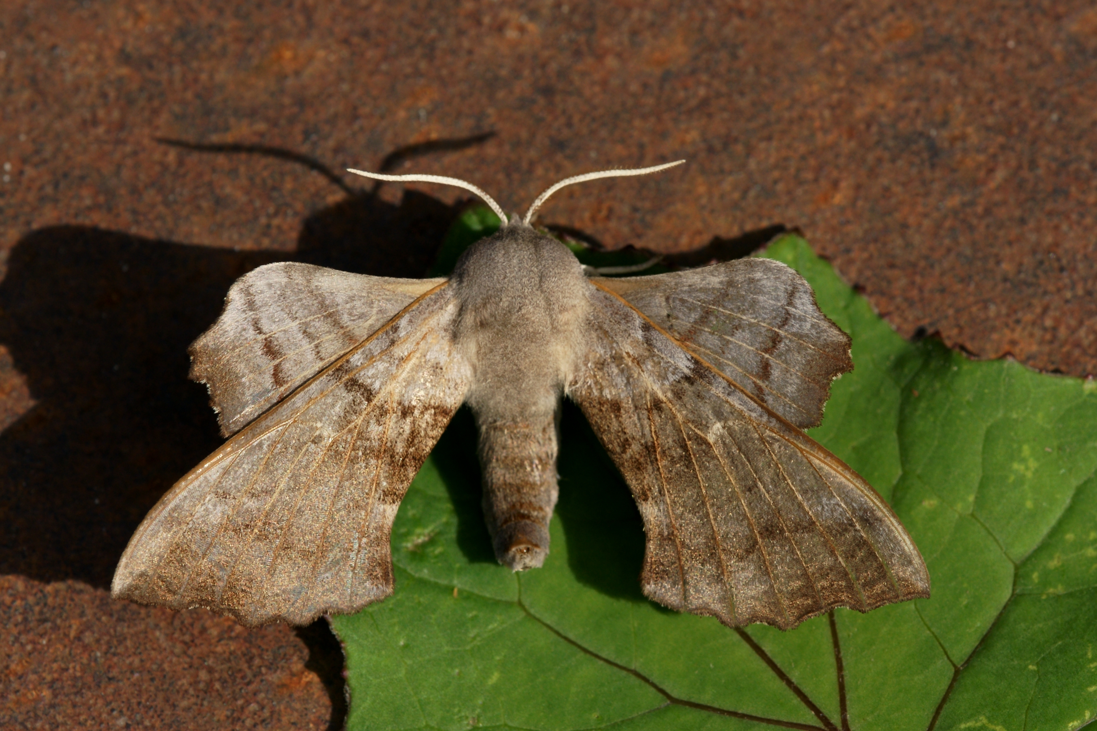 The Poplar Hawk-moth (Laothoe populi) is a moth of the family Sphingidae.